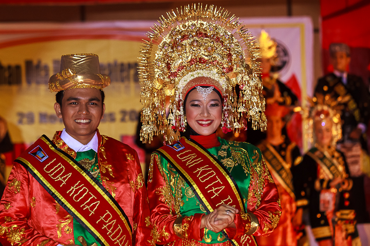 Uda & Uni Kota Padang 2012, the tourism ambassadors of Padang, Indonesia.